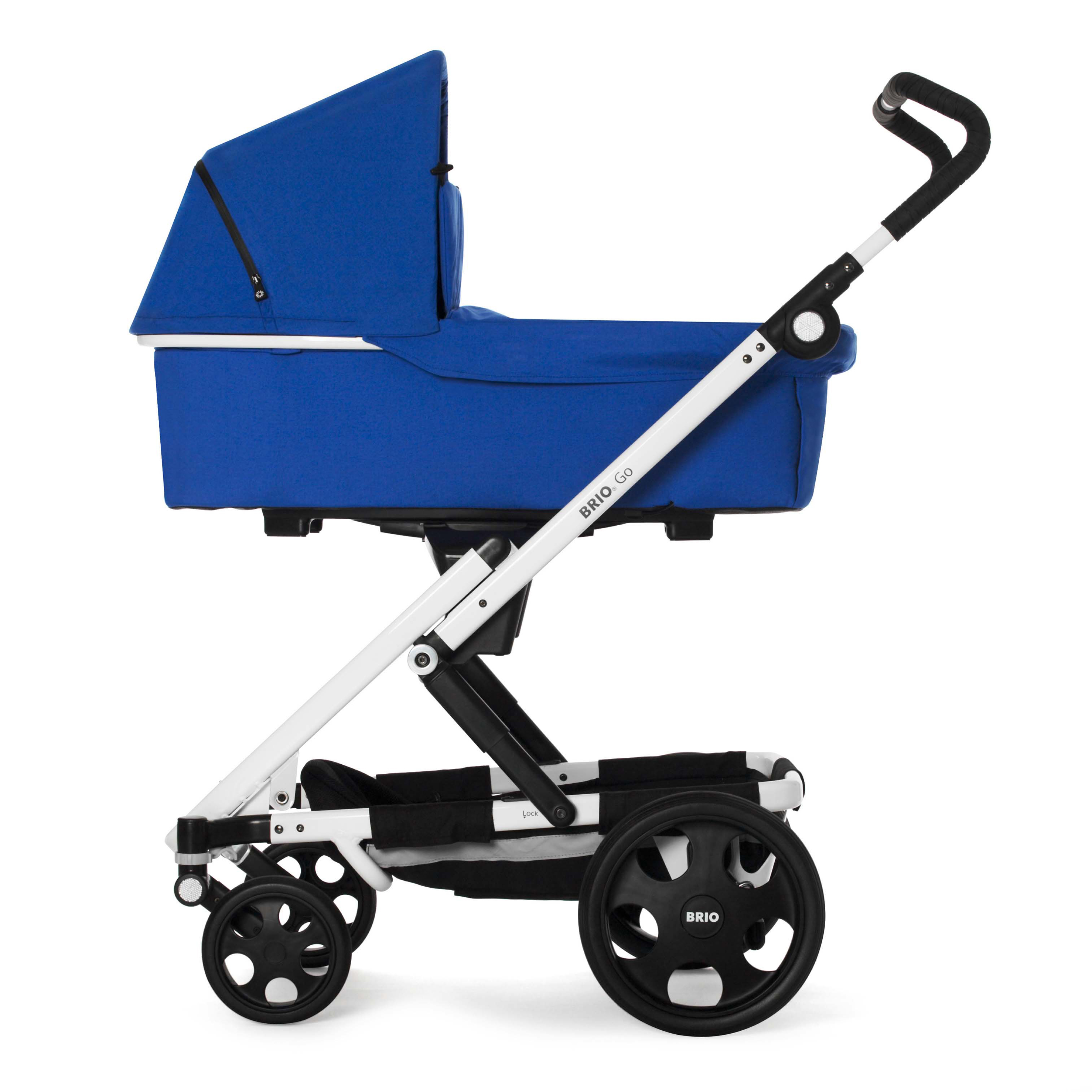 Brio_Go.jpg